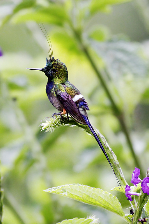 A Wire-crested Thorntail near Manu Road, Peru.